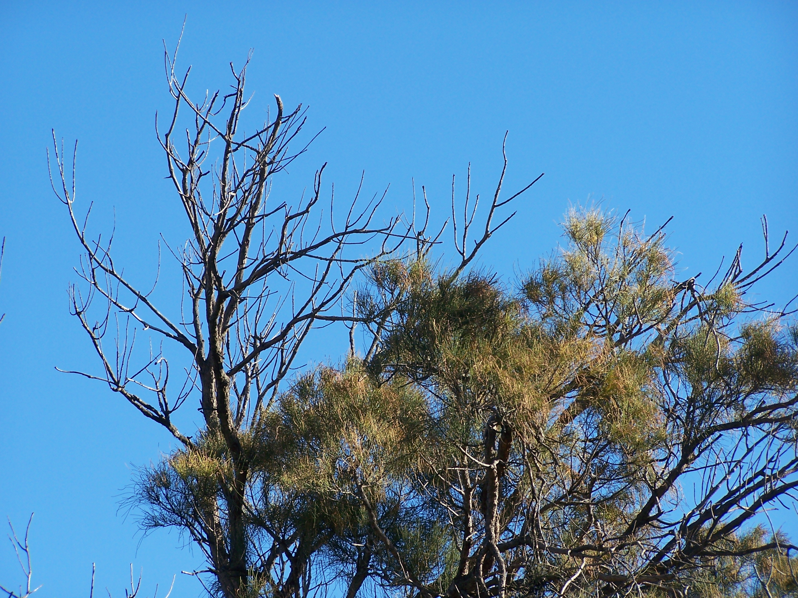 Allocasuarina fraseriana, Sheok in Kings Park infected with dieback. Growing naturally